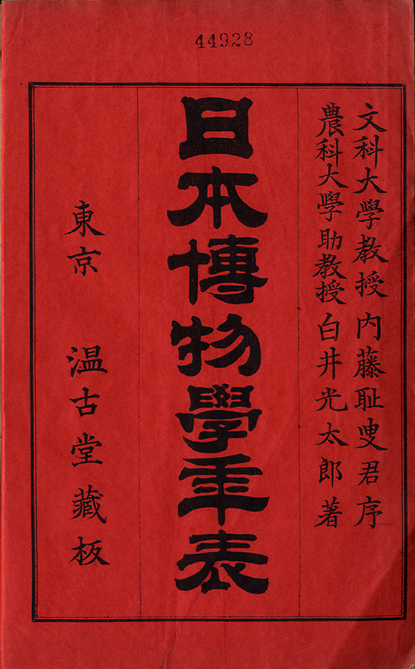 "Shirai Mitsutarō: A chronological table of natural history in Japan. Tokyo, 1891. （With an preface by Naitō Chisō)". Mitsutarō Shirai (1863-1932) was a Japanese plant pathologist, mycologist, and herbalist, covering both, traditional herb studies (honzōgaku) and modern science. This book was re-edited and reprinted several times. It refers to source materials some of which have been lost later. (Collection W. Michel, Fukuoka)